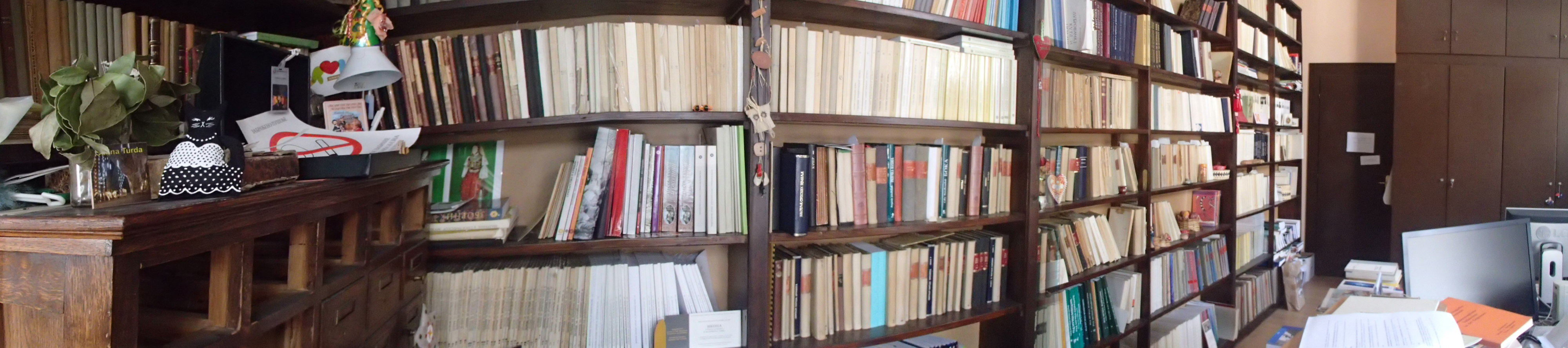 The Institute of Ethnography SASA, Library